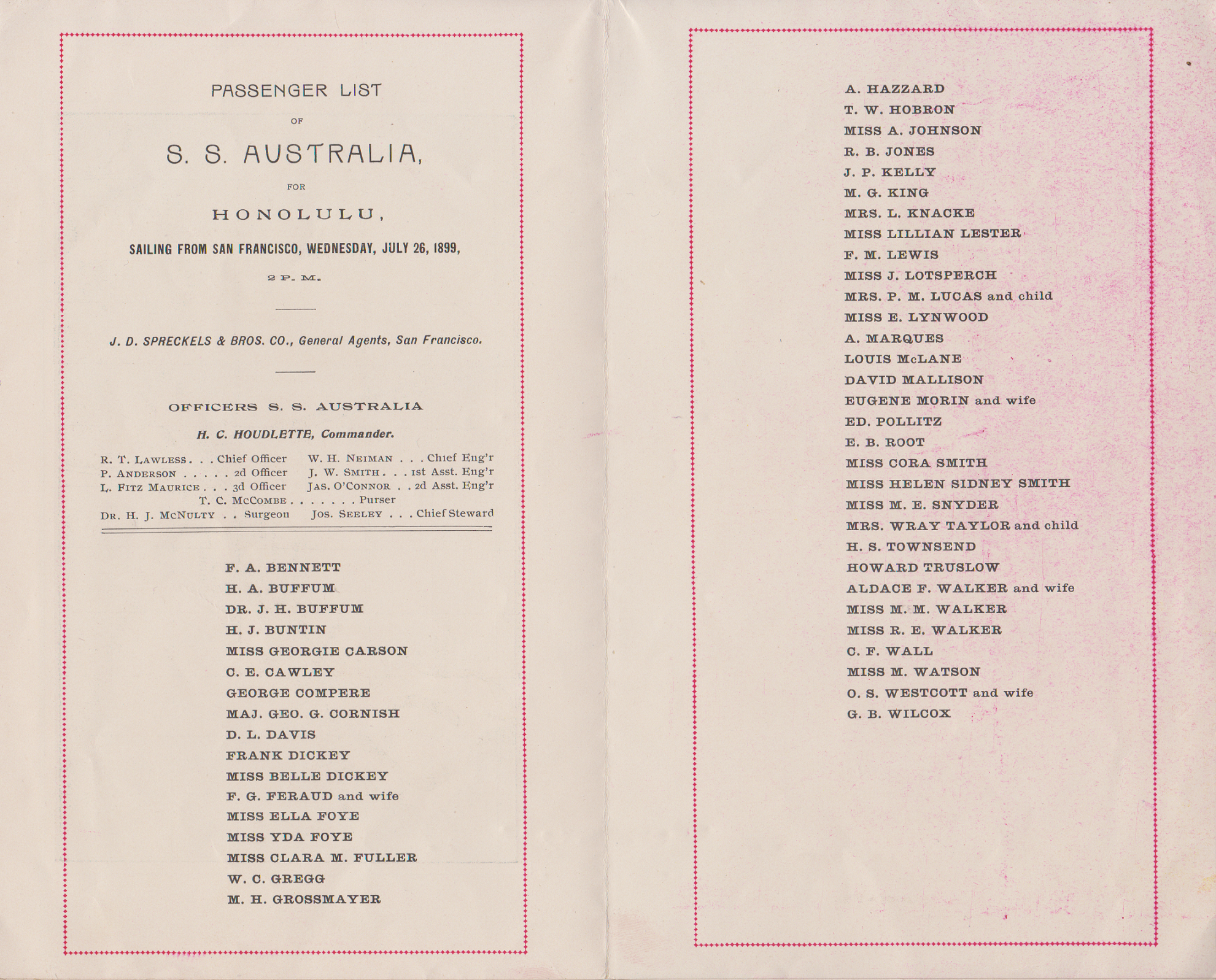 Passenger list for departure of SS Australia from San Francisco, California USA on July 26, 1899